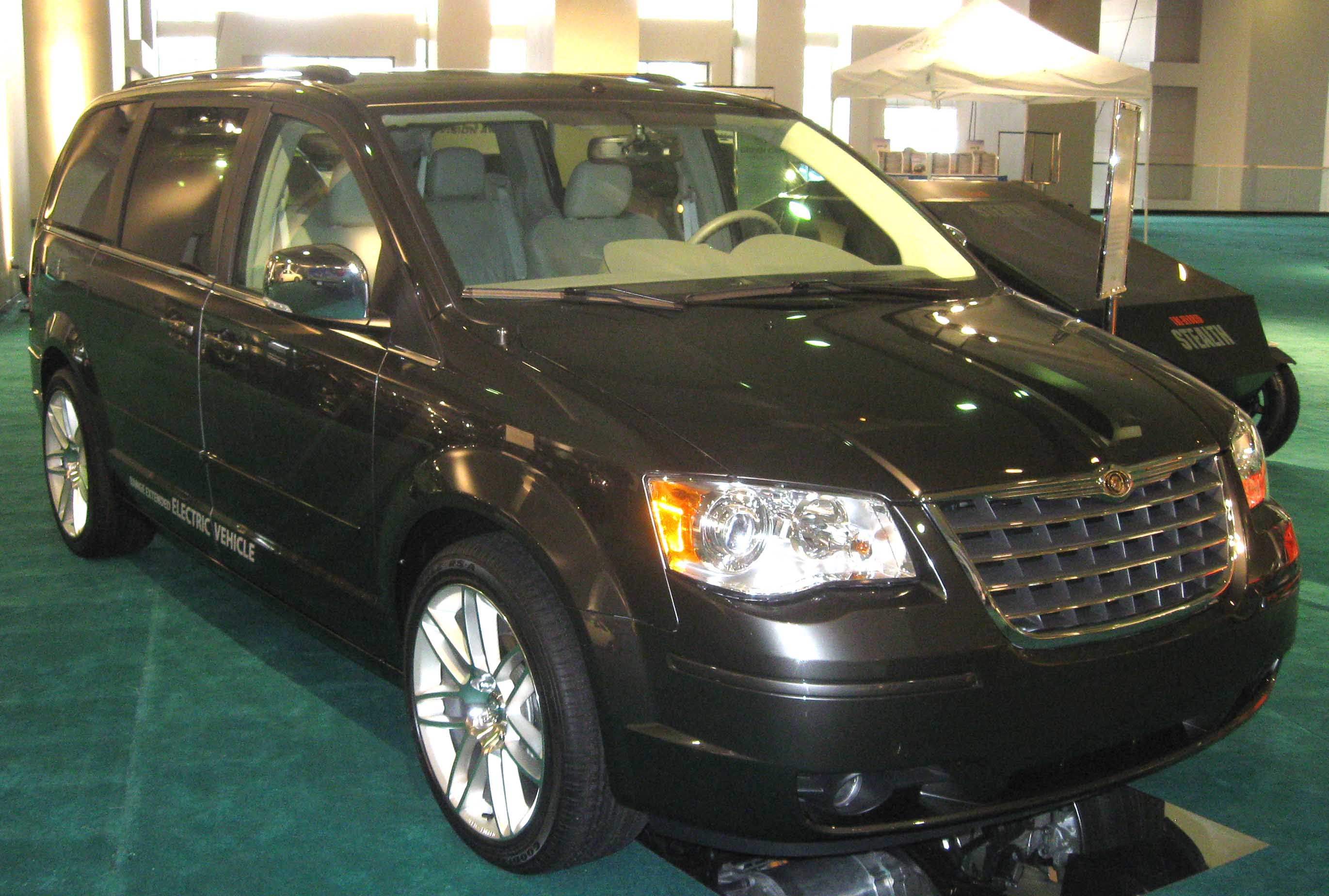 Electric-powered Chrysler Town and Country photographed at the 2009 Washington DC Auto Show.